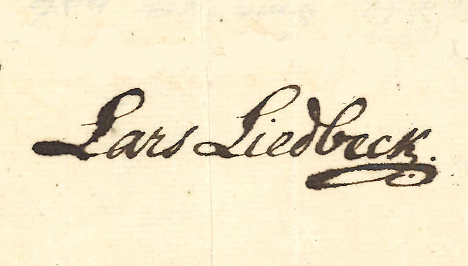 The signature of Swedish professor of mathematics at Lund University Lars Liedbeck on a letter to the university's chancellor, July 1745.